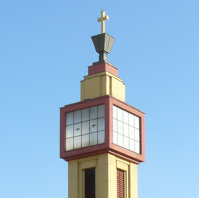 Vrsovice Hussite Church in Prague looks like a lighthouse